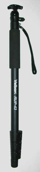 Bipod for camera